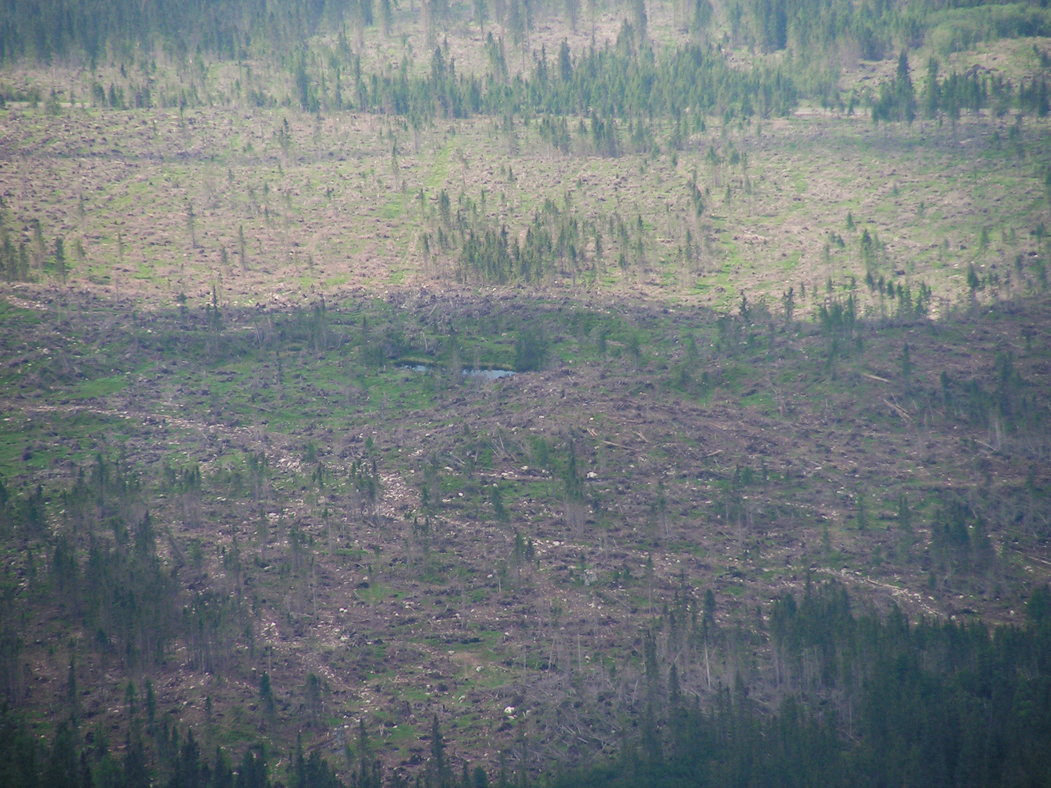 Nižné Smrekovické pliesko from the peak of Predné Solisko, the forest was damaged by a strong wind on 19th November 2004.